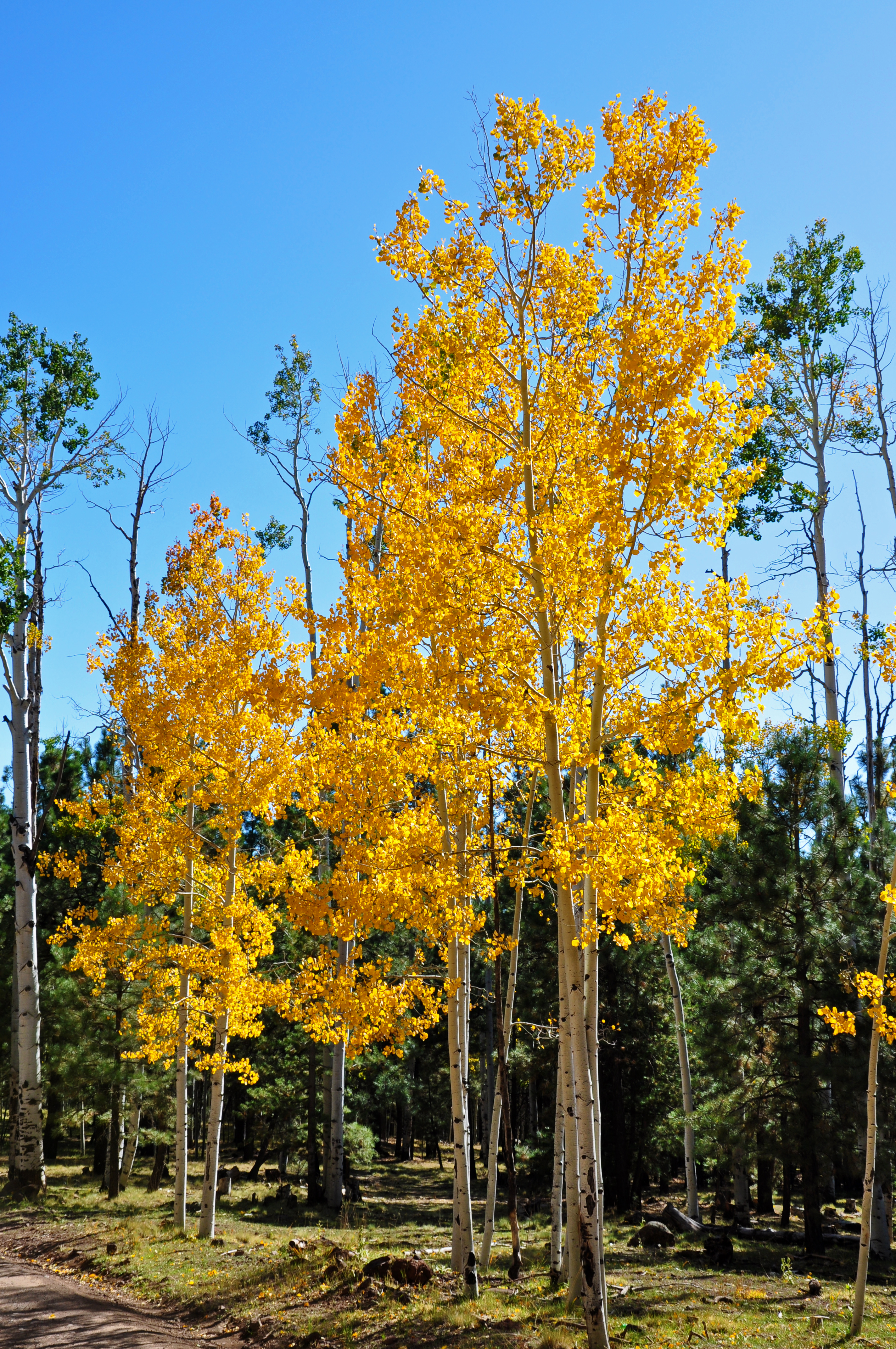 Bursts of yellow aspen (Populus tremuloides) can be seen from Forest Road 151, part of the Around the Peaks Loop scenic drive. For details on the drive, go to Taken by Brady Smith on 9-30-09. Credit: USDA Forest Service, Coconino National Forest.